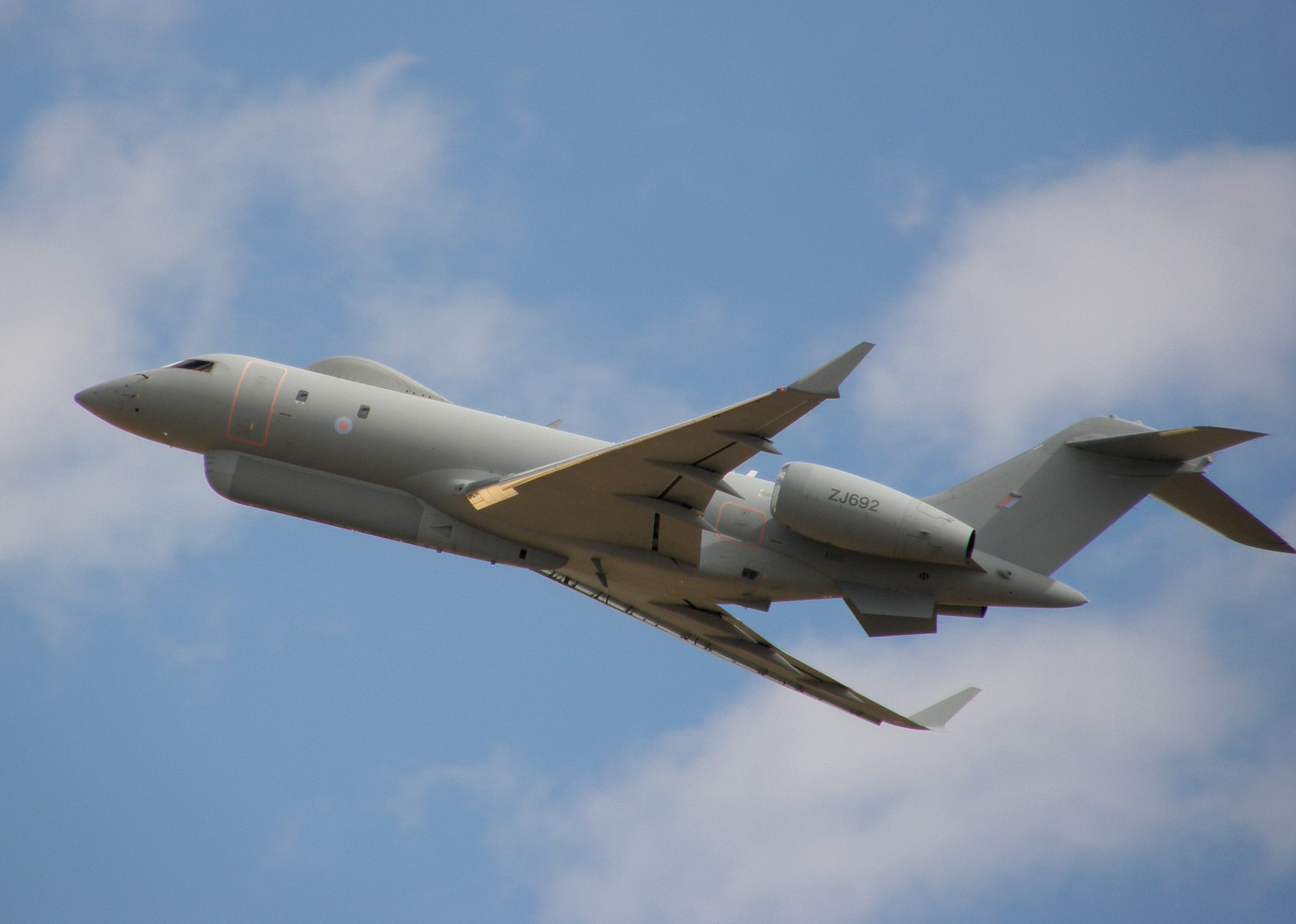 Royal Air Force Sentinel R.1 visits the National Test Pilot School at Mojave